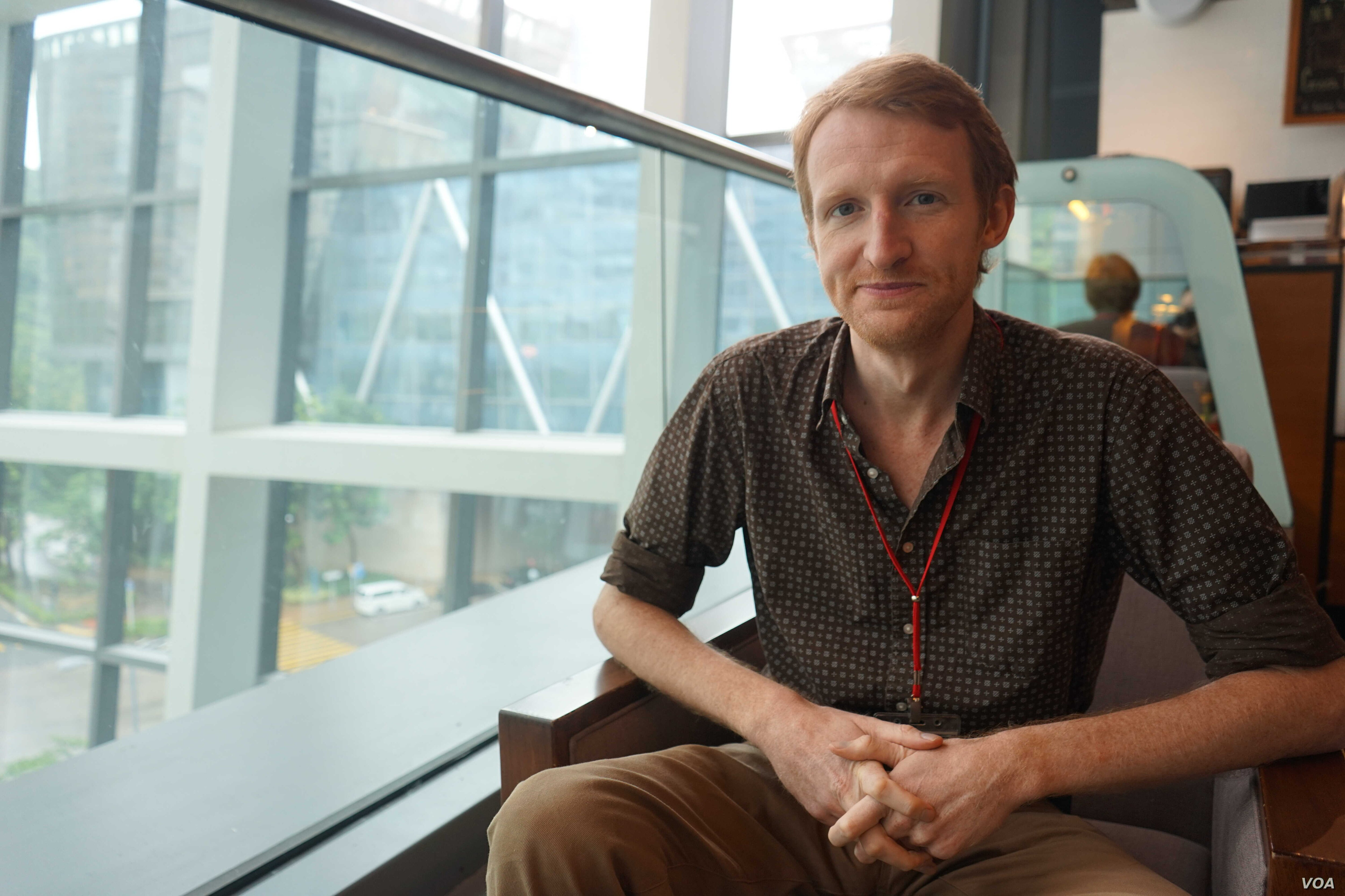 Tom Grundy, co-founder of Hong Kong Free Press ( J. Lau/VOA)